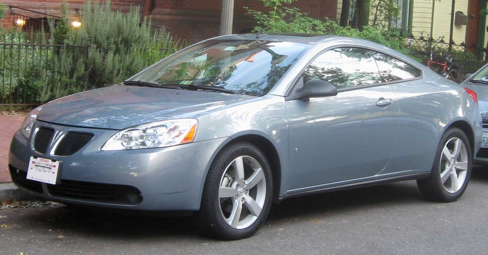 Pontiac G6 photographed in Washington, D.C., USA.